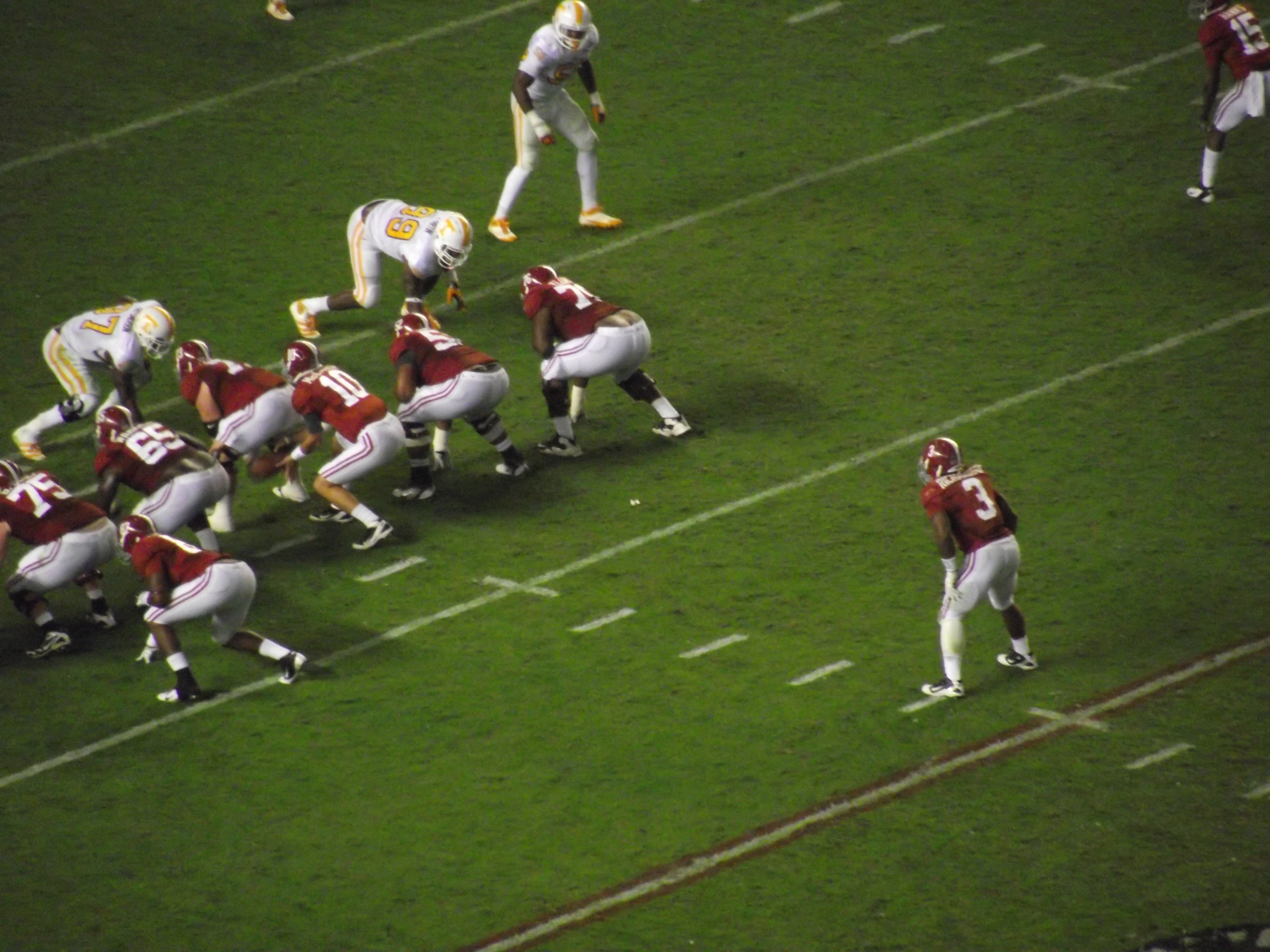 Alabama Crimson Tide football running back Trent Richardson in the backfield with quarterback A. J. McCarron taking a snap against the Tennessee Volunteers football team at Bryant–Denny Stadium in Tuscaloosa, Alabama.